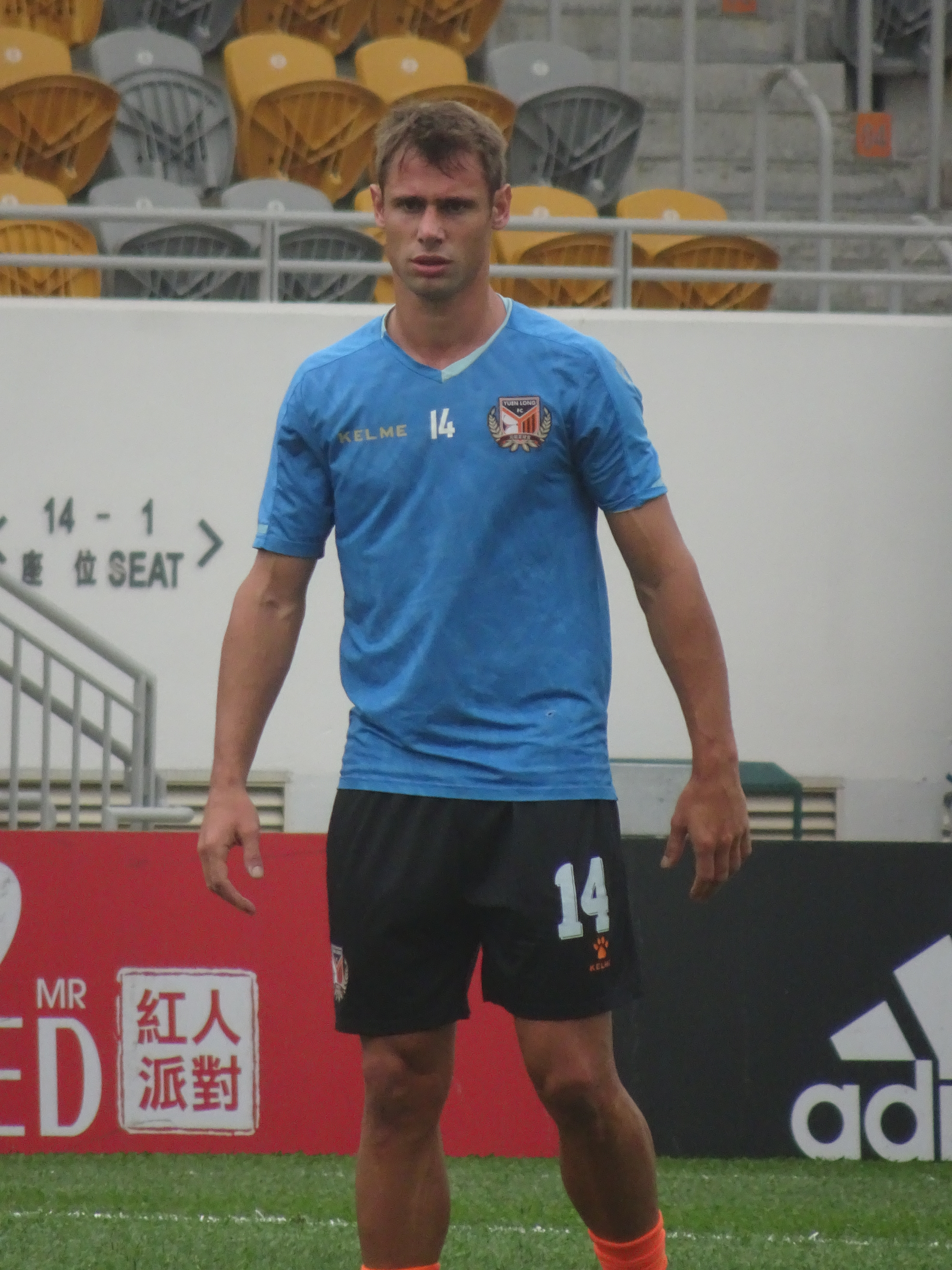 Jean Diego Moser (13 Apr 2019, Sapling Cup semi-final, Yuen Long vs Pegasus, Mong Kok Stadium)